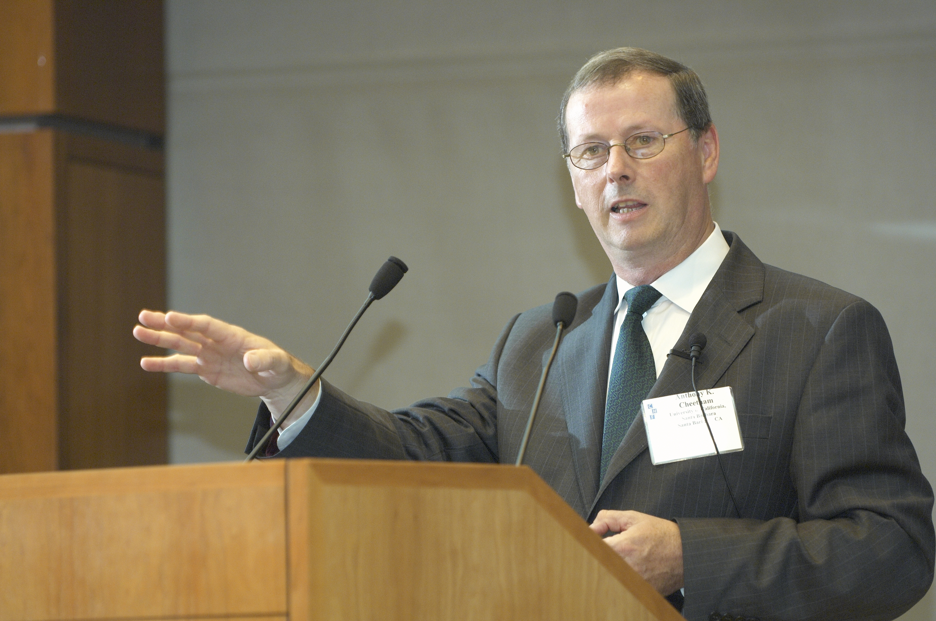 Photograph of Anthony Cheetham, Professor of Materials and Chemistry at the University of California, Santa Barbara, at Innovation Day, 7 September 2005, at the Chemical Heritage Foundation, Philadelphia, PA, USA.